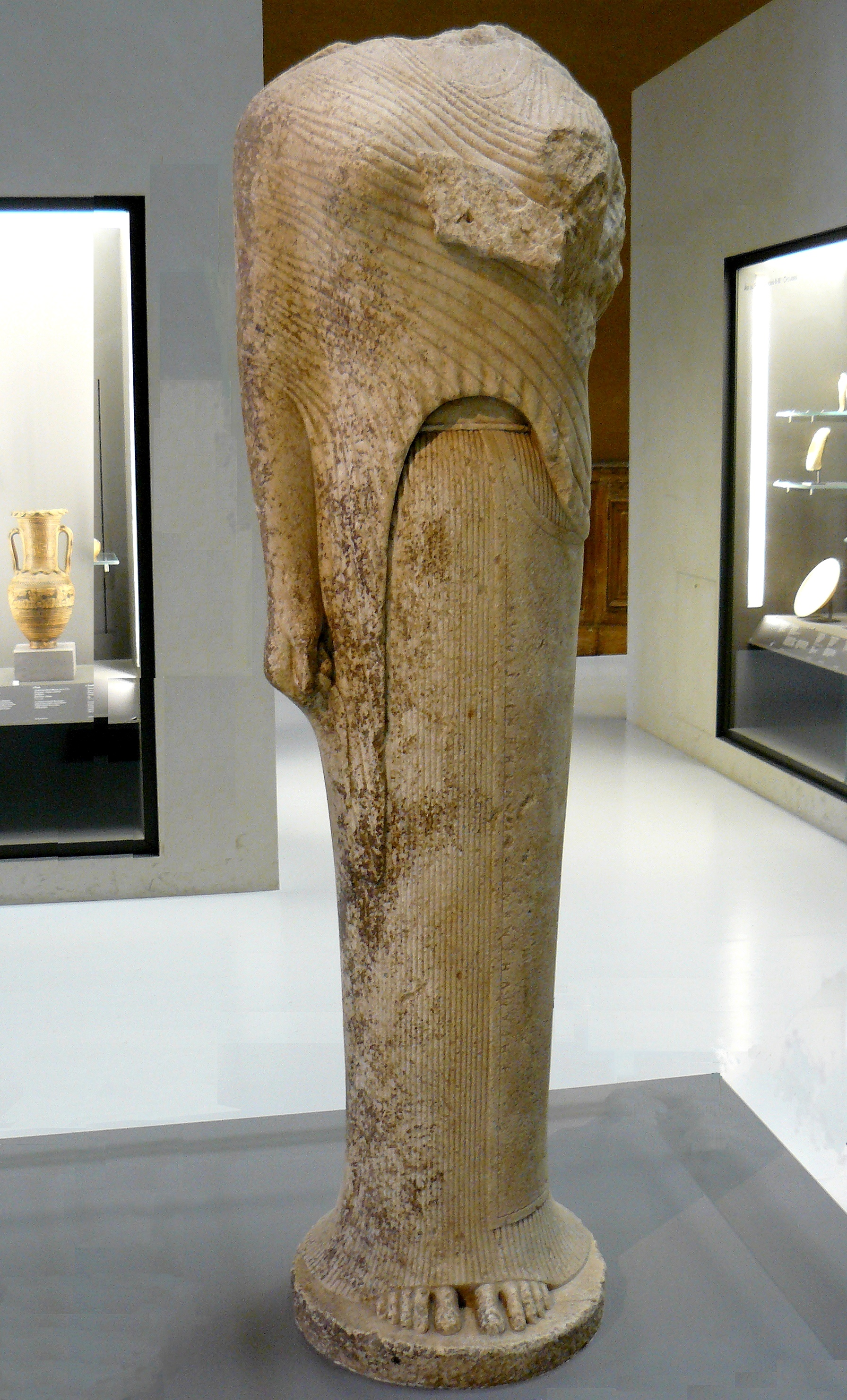 Kore (archaic statue of a young maiden) from the Heraion of Samos. Bears an inscription in Ionian alphabet: "Cheramyes dedicated me to Hera, as a gift". Marble, made in Samos, ca. 570–560 BC.